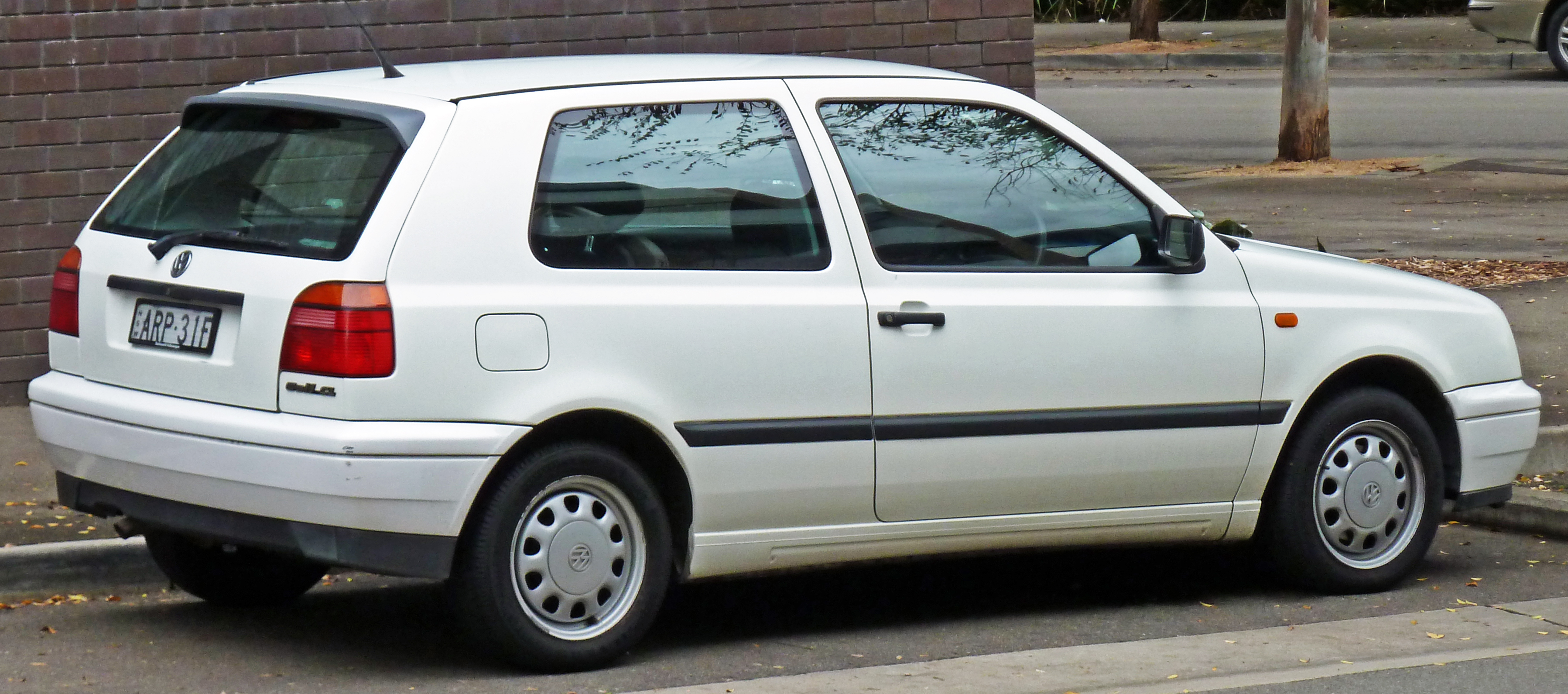 1996 Volkswagen Golf (1H) CL 3-door hatchback. Photographed in Zetland, New South Wales, Australia.